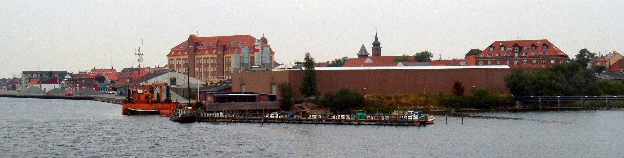 Waterfront of Nykøbing Falster, Falster, Denmark. View north from the Frederick IX bridge. Taken by contributor July 2006.